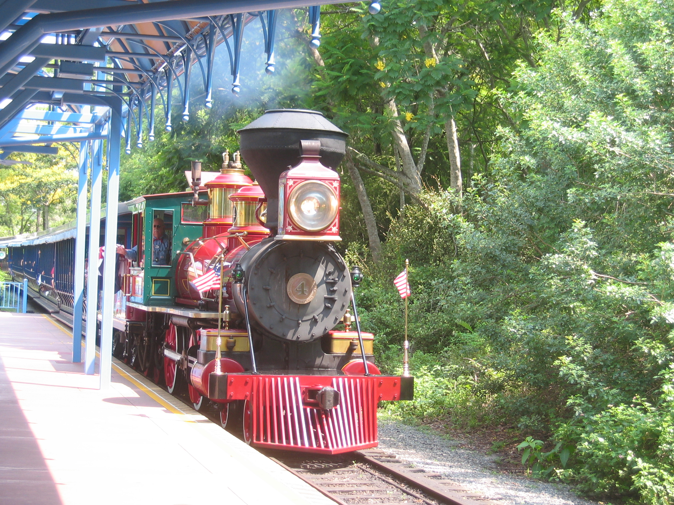 The Roy O.Disney pulling into Mickey's Toontown Fair station